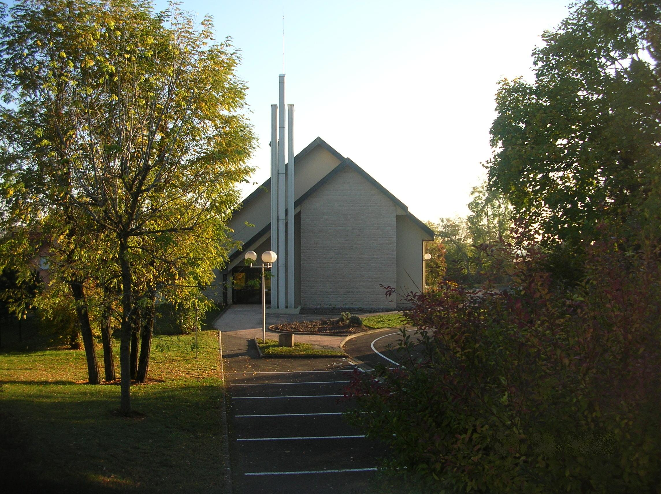 A meetinghouse of The Church of Jesus Christ of Latter-day Saints in Dijon, Côte d'Or, France.